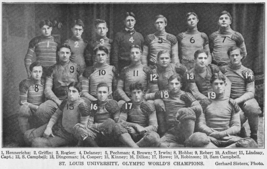 Team photo of the 1904 St. Louis University football team that is credited with winning the 1904 Olympic Football Championship. American football was featured as a demonstration programme in the 1904 OG at St. Louis.